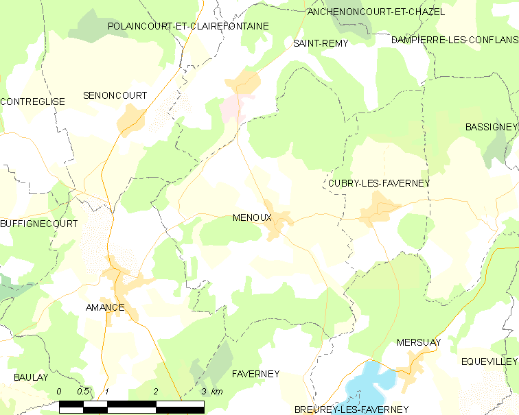 Map of French municipality